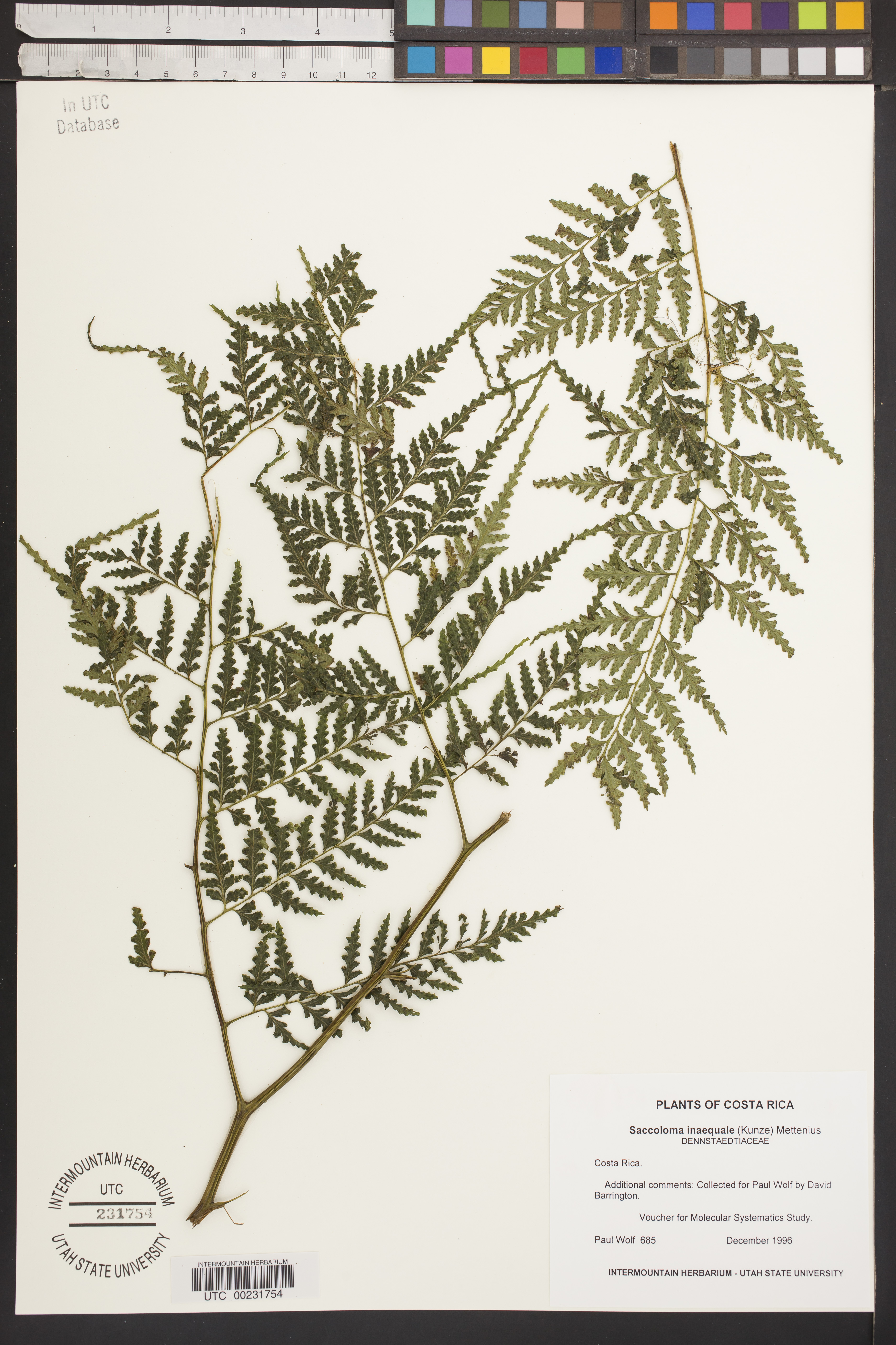 Saccoloma inaequale specimen collected by David Barrington and Paul Wolf in Costa Rica.